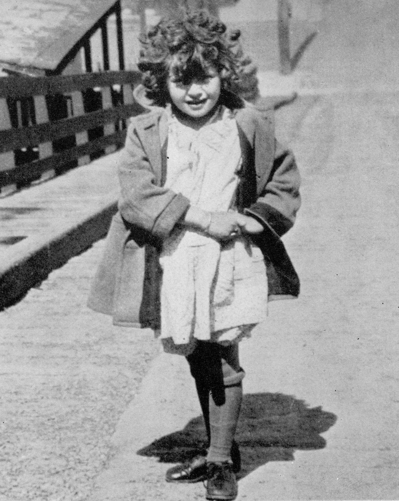 Lana Turner in Wallace, Idaho, c. 1926